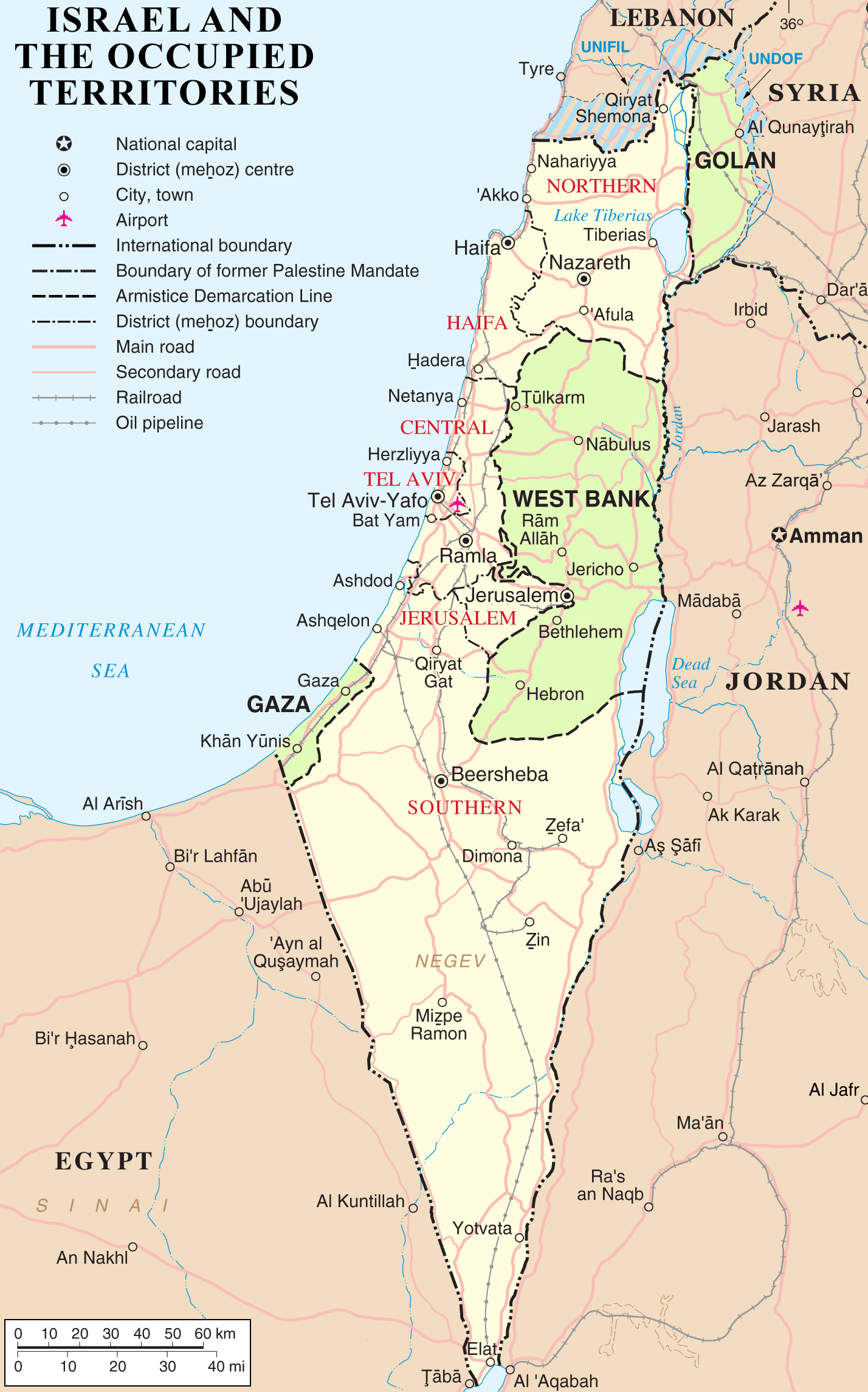 Map of Israel, the Palestinian territories (West Bank and Gaza Strip), the Golan Heights, and portions of neighbouring countries. Also former United Nations deployment areas in countries adjoining Israel or Israeli-held territory, as of February 2018.